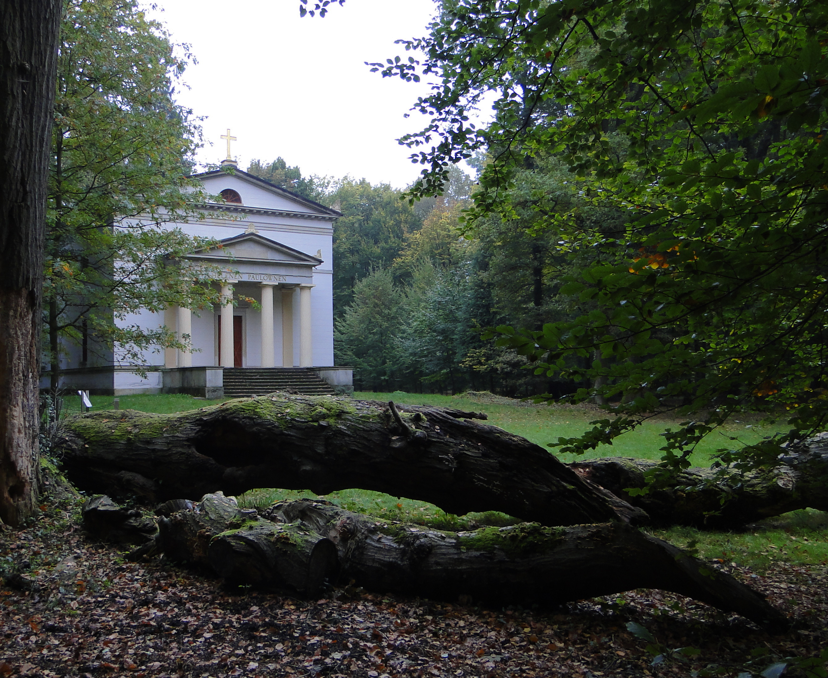 Mausoleum of Helena Paulowna in the park of Ludwigslust castle in Ludwigslust, district Ludwigslust-Parchim, Mecklenburg-Vorpommern, Germany